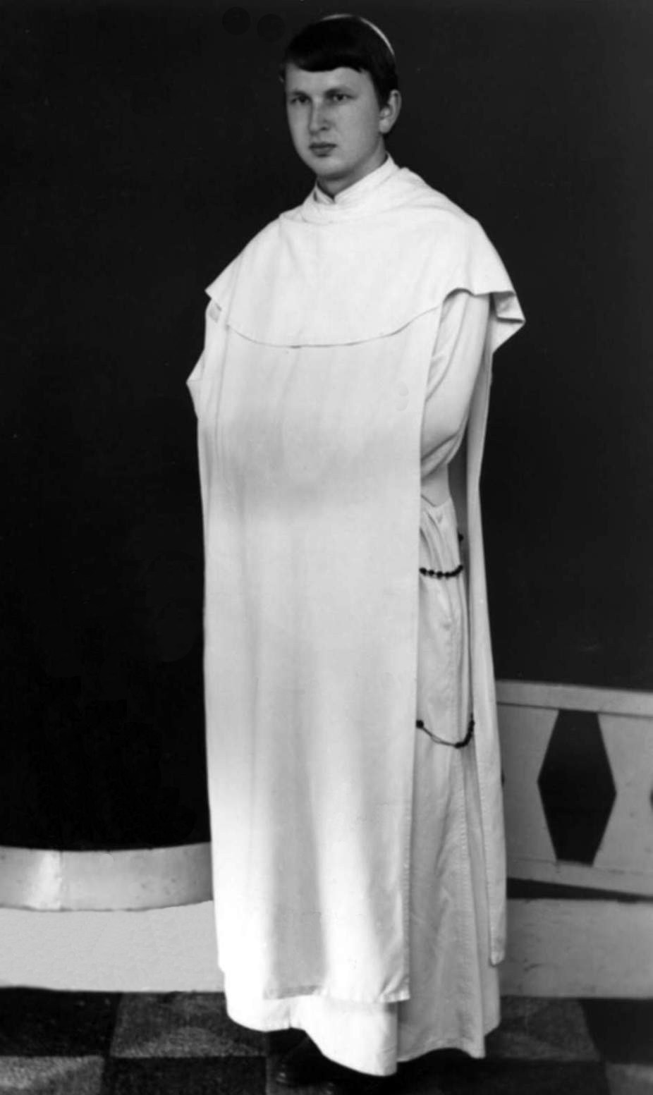 Polish monk in a Pauline's habit (image presents as young philosophy student of roman-catholic Seminary in Kraków, Poland).